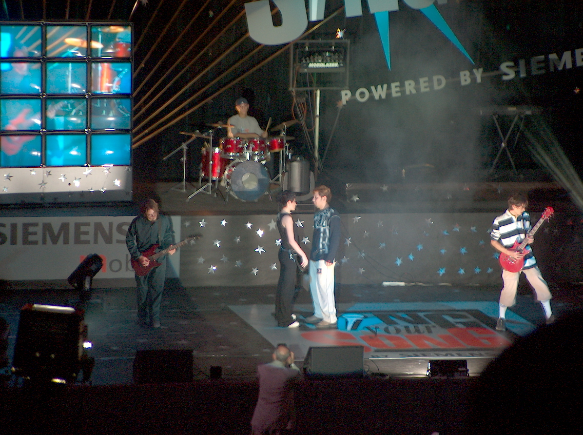 Unformal 2003